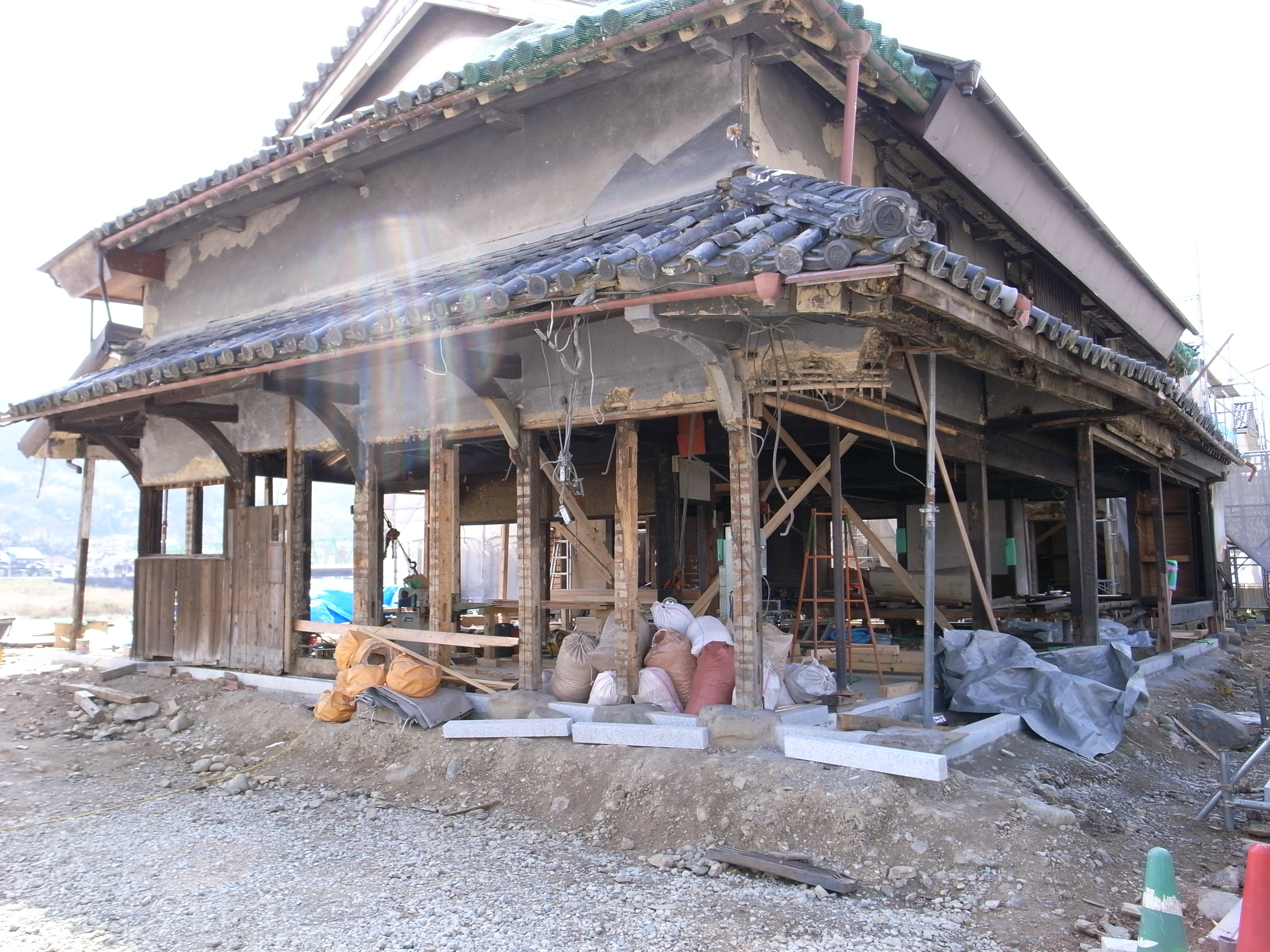 honjin hashimoto city wakayama Japan